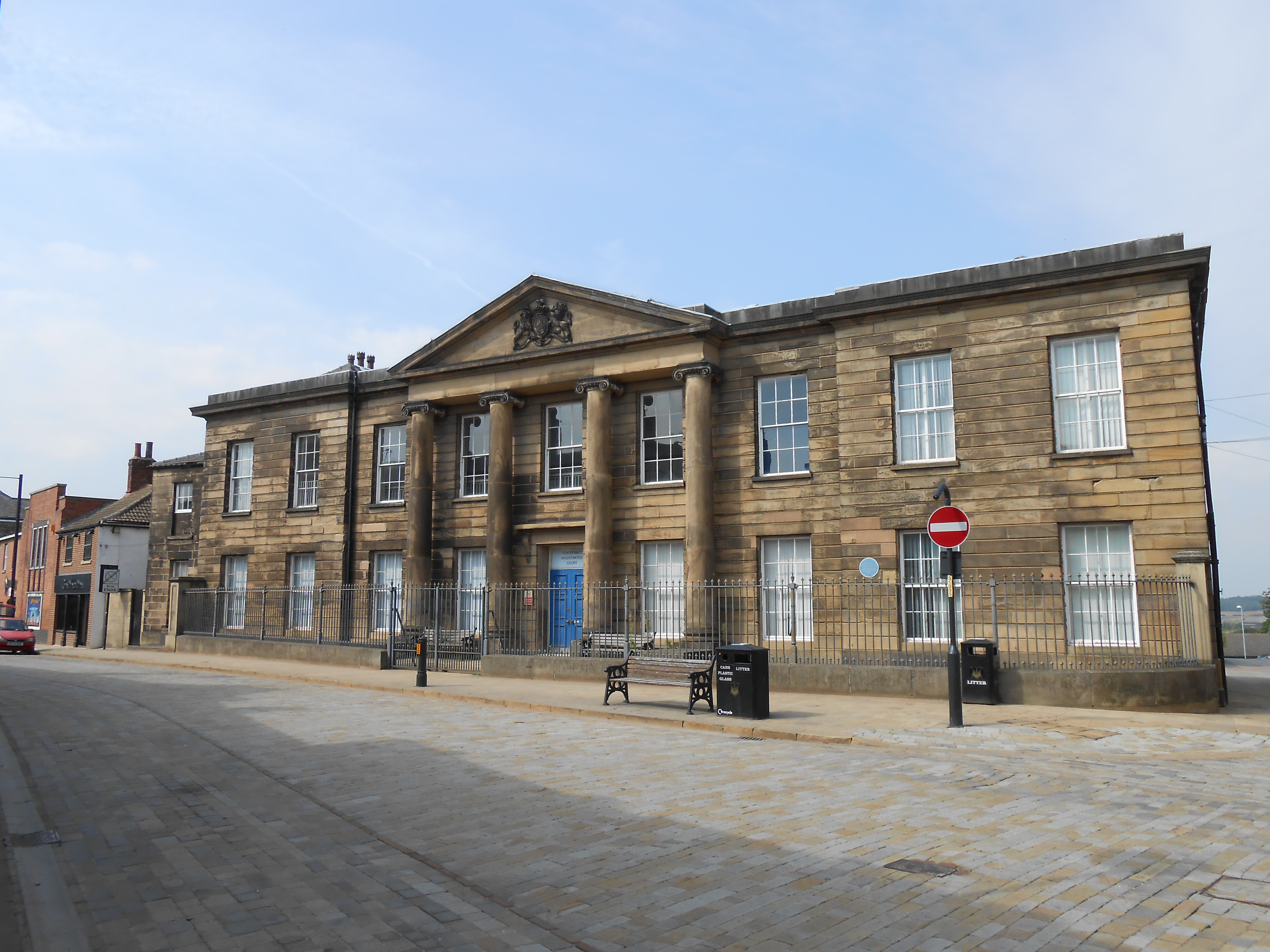 Pontefract Magistrates' Court, West Yorkshire, England.